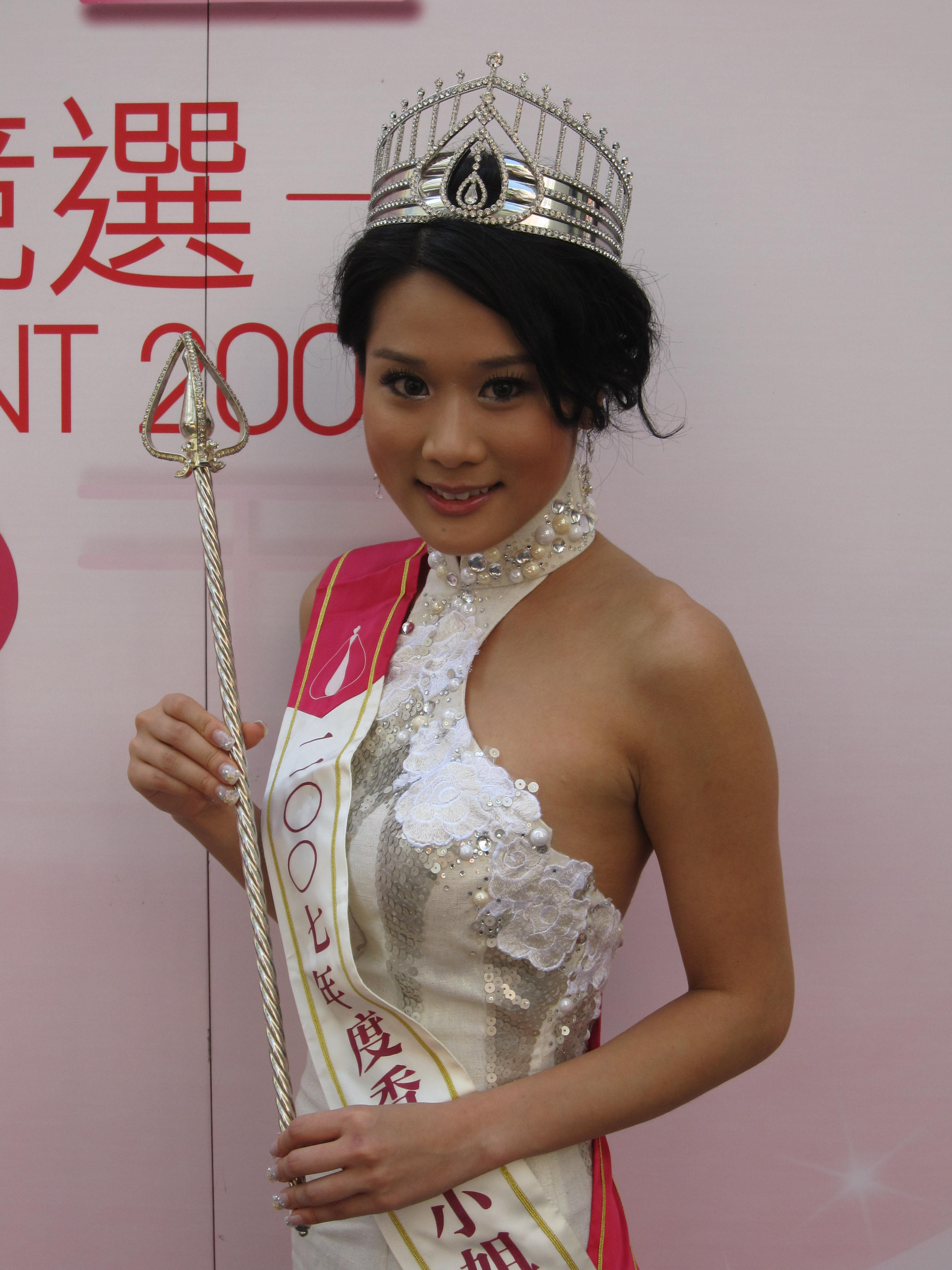 Kayi Cheung promoting for MHK 2009.